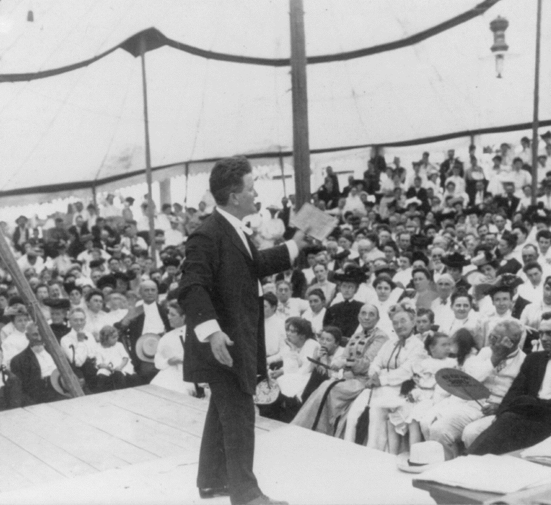 Gov. LaFollette of Wisconsin addressing Chautauqua assembly, Decatur, Ill.